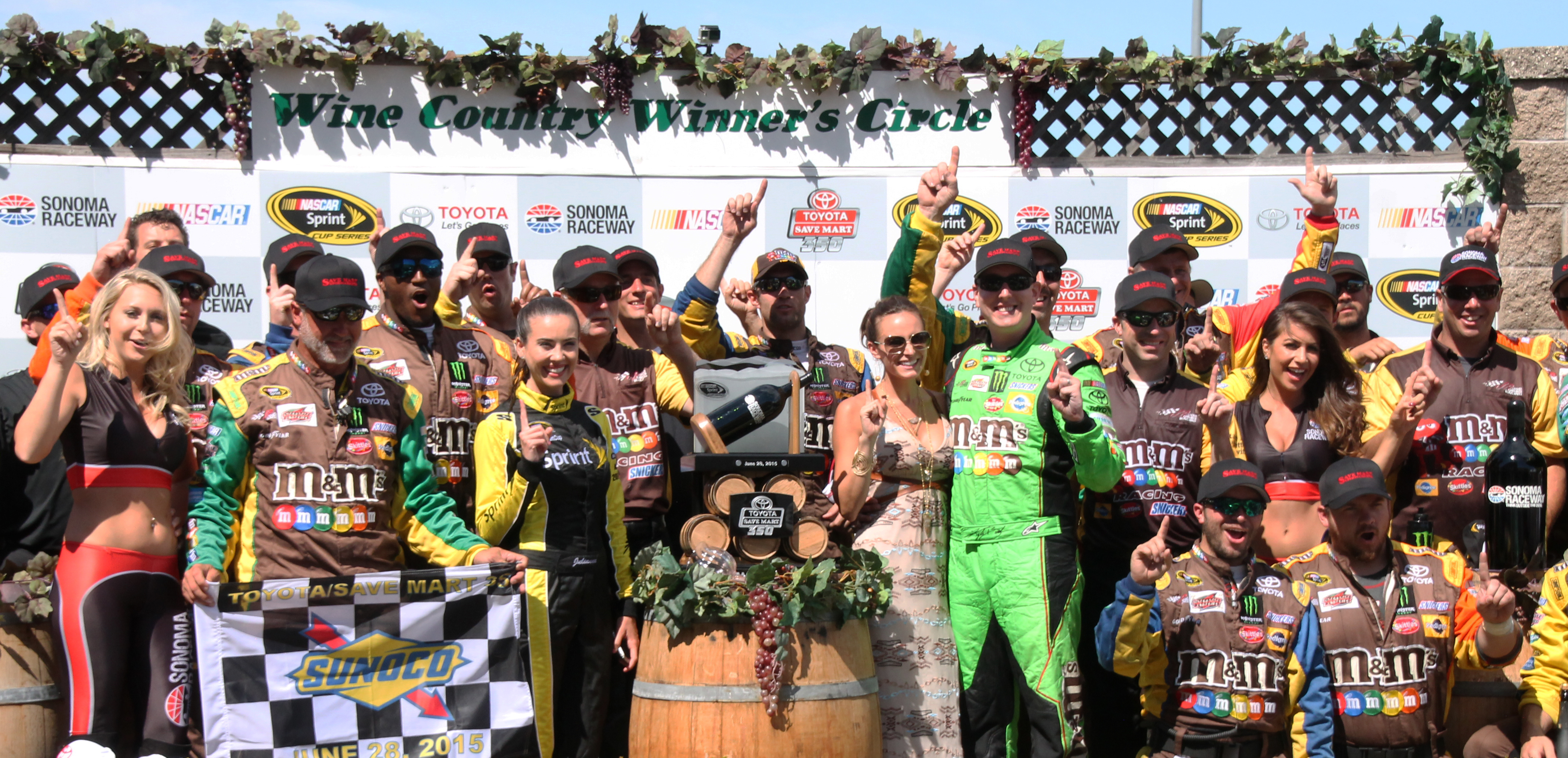 Kyle Busch celebrates winning the 2015 Toyota/Save Mart 350 at Sonoma Raceway, Sonoma, California.